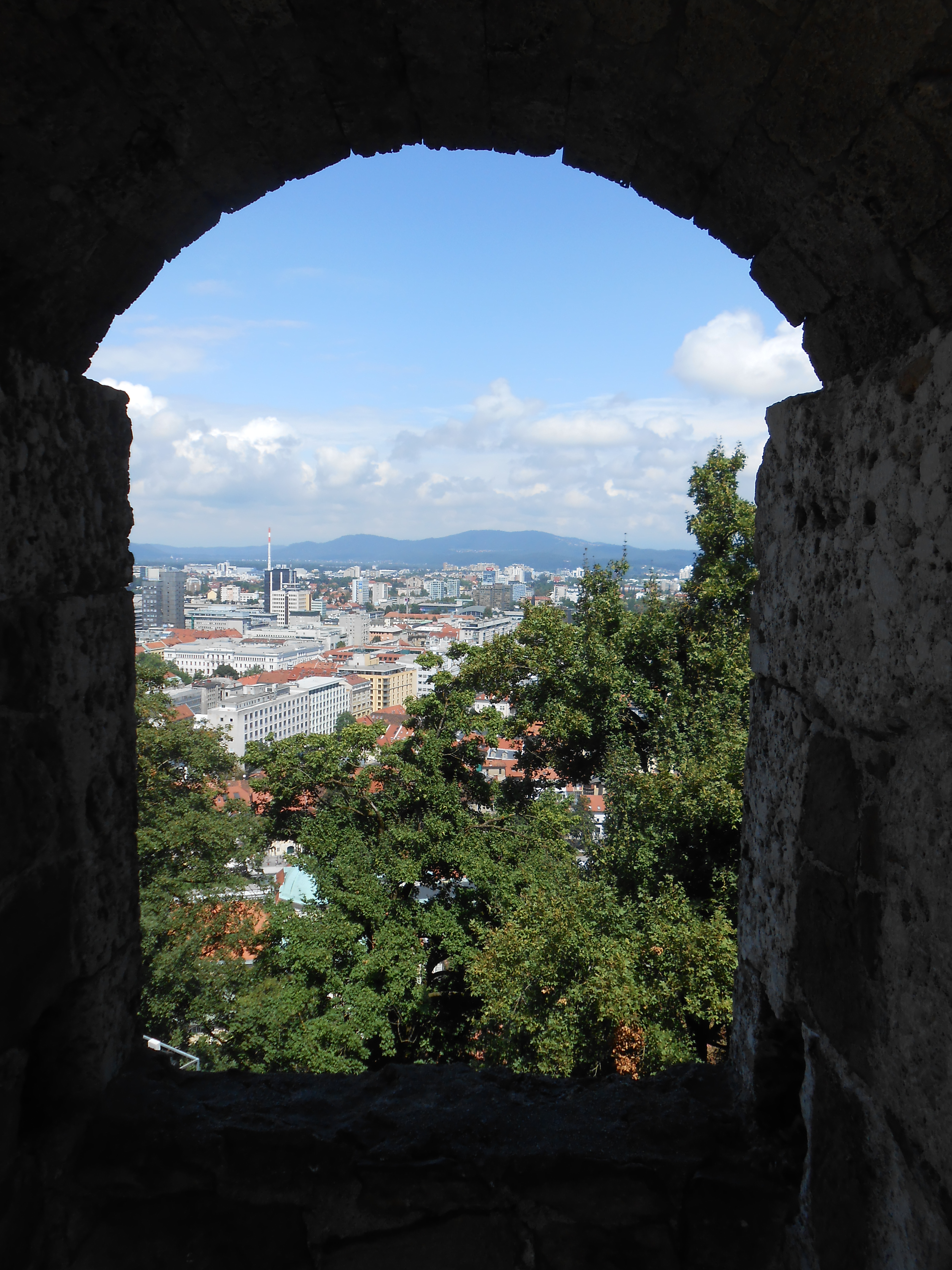 View through the window of Ljubljana city, Ljubljana, Slovenia